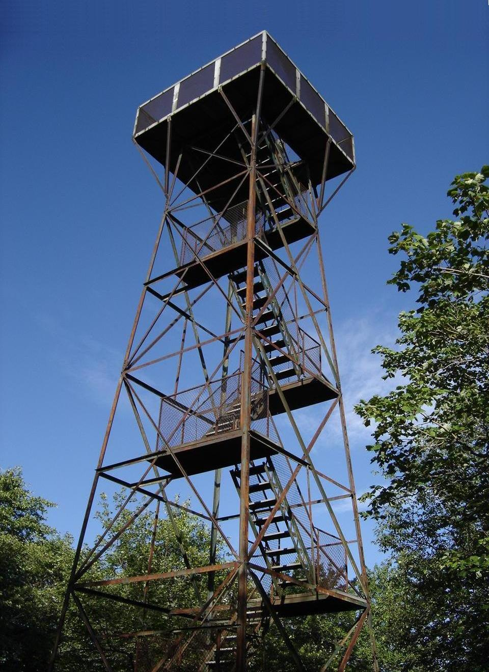 Observation tower atop Mt. Davis, high point in Pennsylvania 7-26-2010